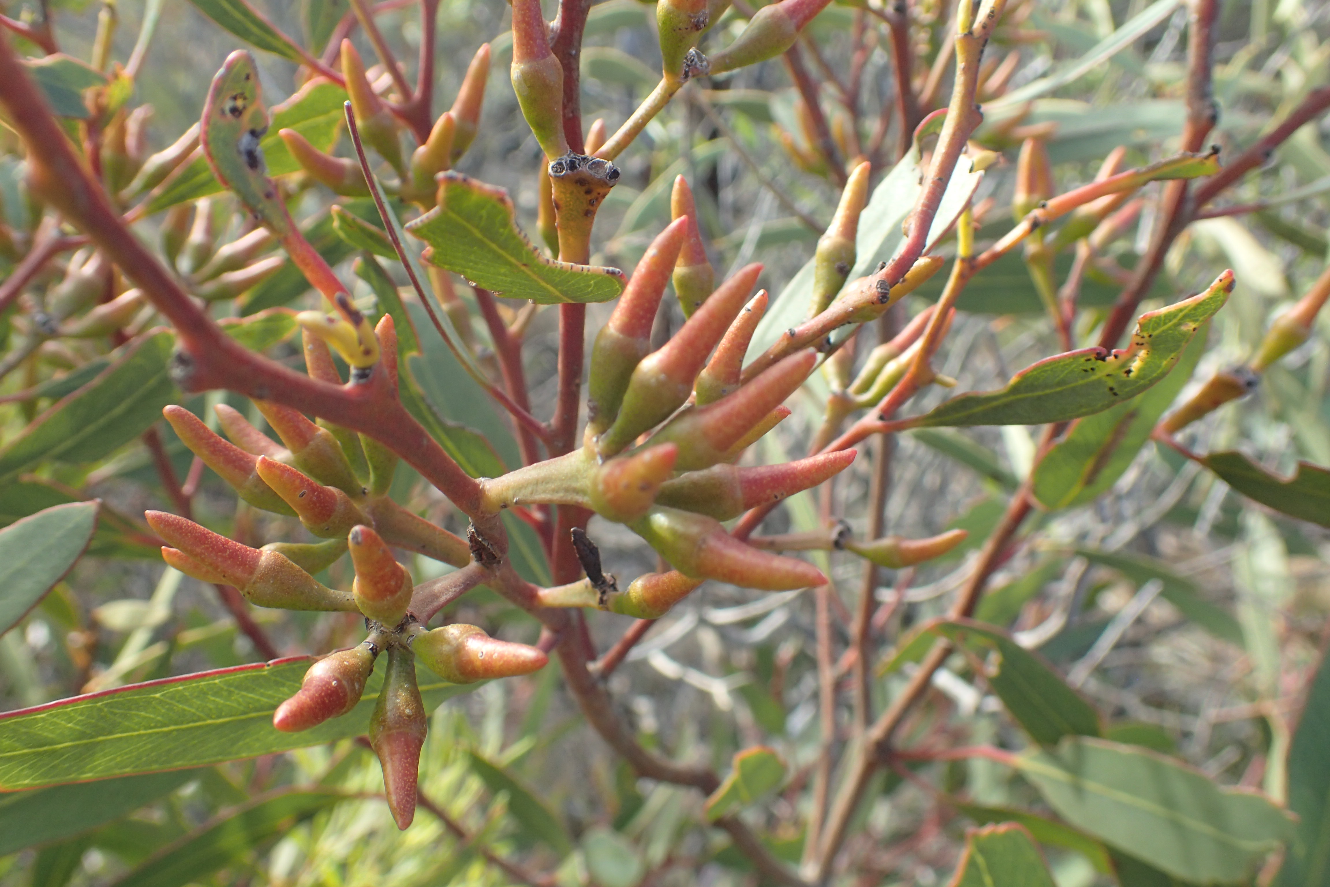 Flower buds of Eucalyptus luteola near North Road, north of Ravensthorpe